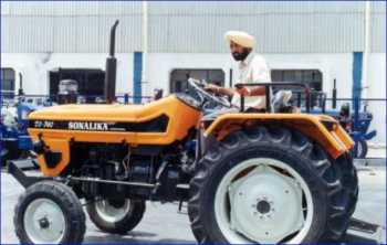 Sonalika tractor developed by CMERI, Durgapur